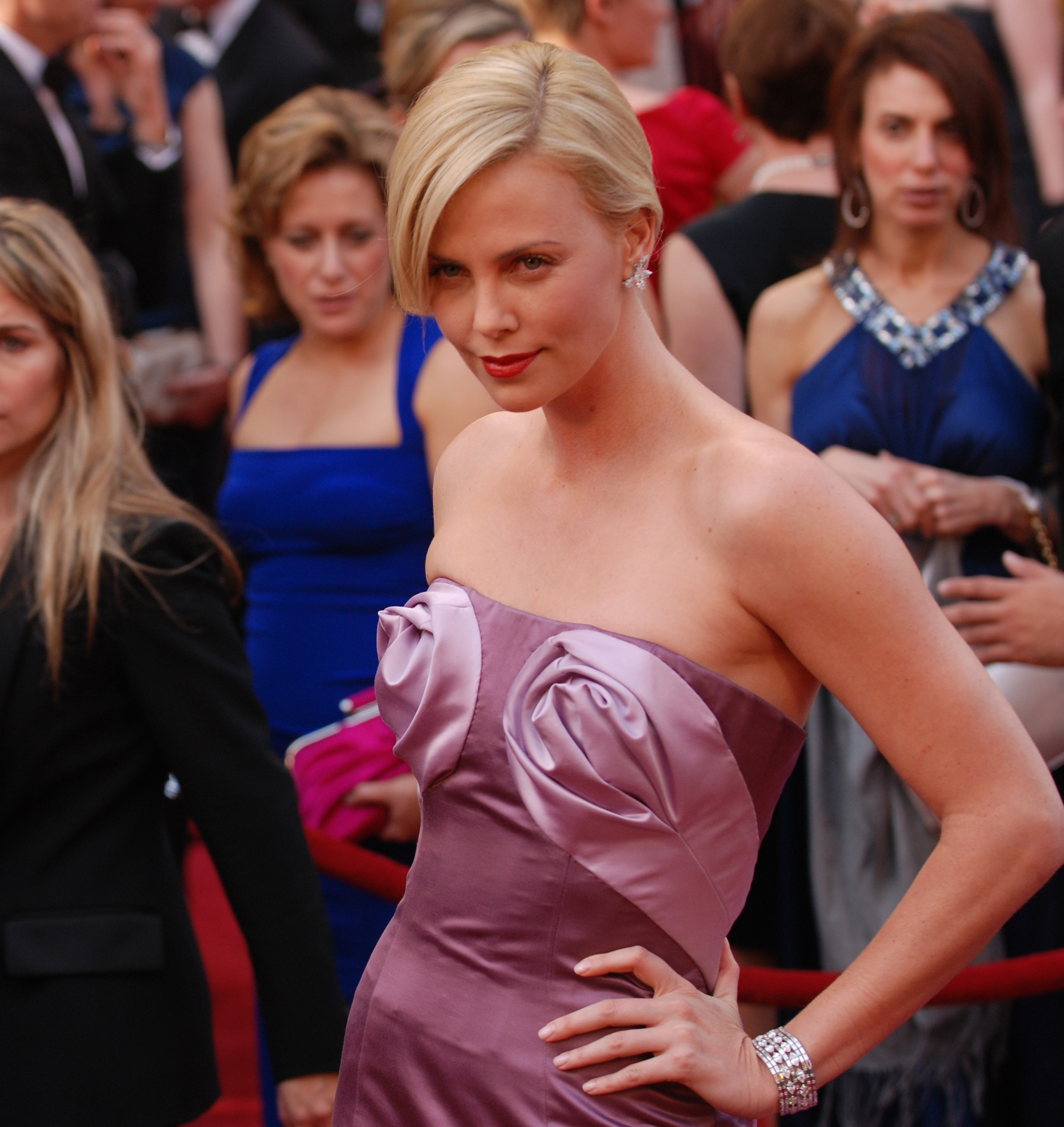 Charlize Theron strikes a red-carpet pose at the 82nd Academy Awards, March 7, in Hollywood, Calif.